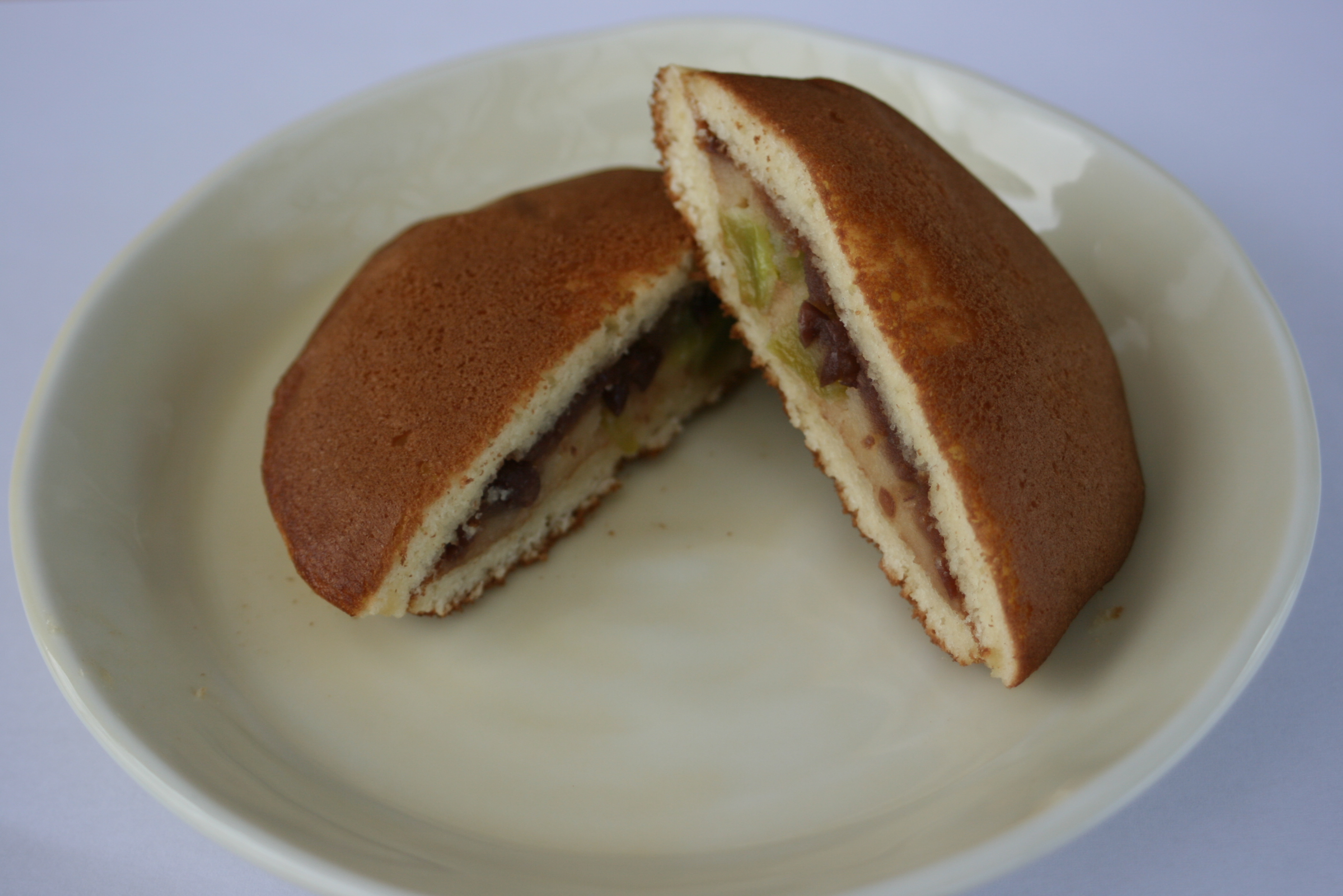 A type of Dorayaki (pancake-like Japanese confection) which contains cucumbers made in Honjo, Saitama prefecture.